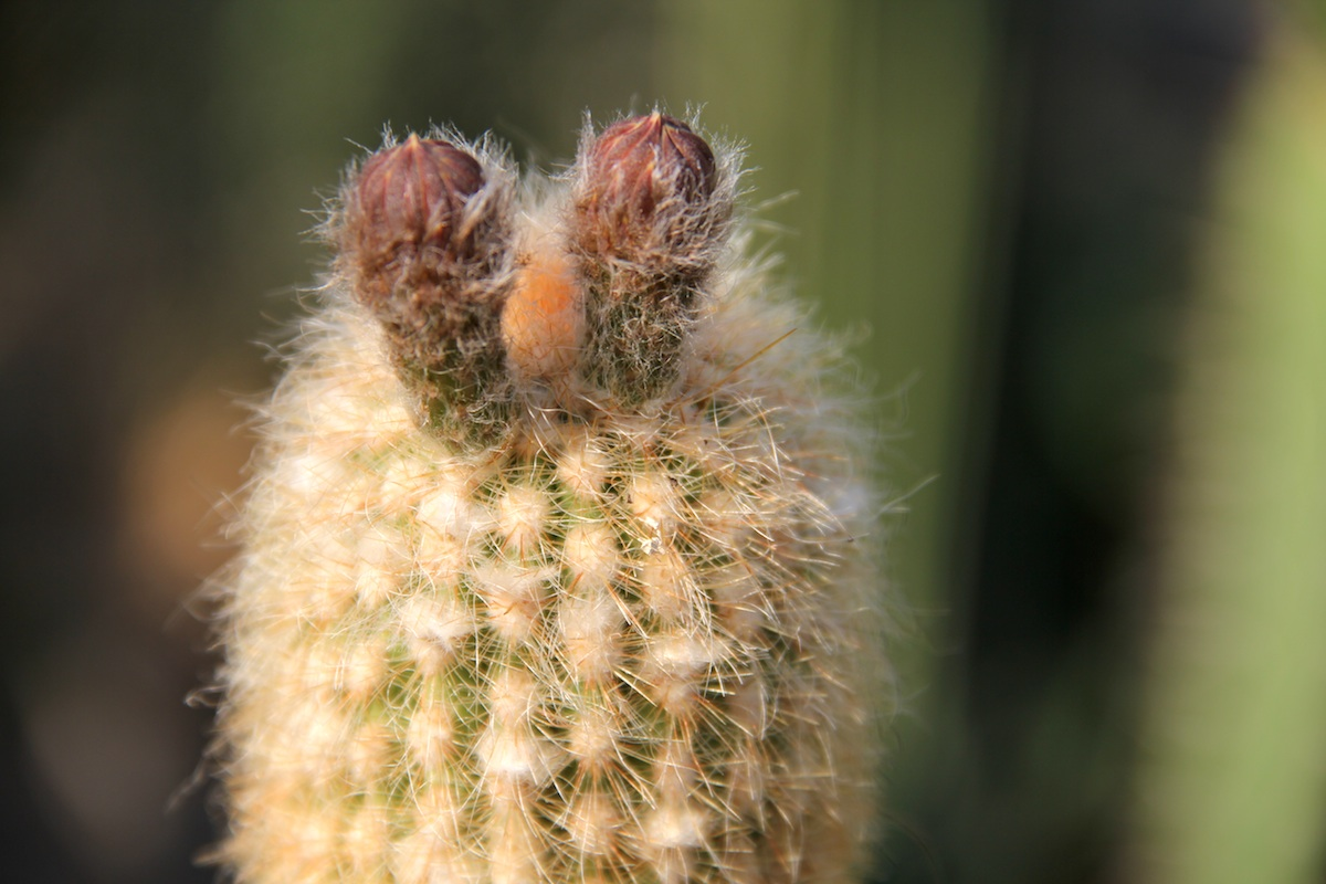 Haageocereus pseudomelanostele subsp. carminiflorus